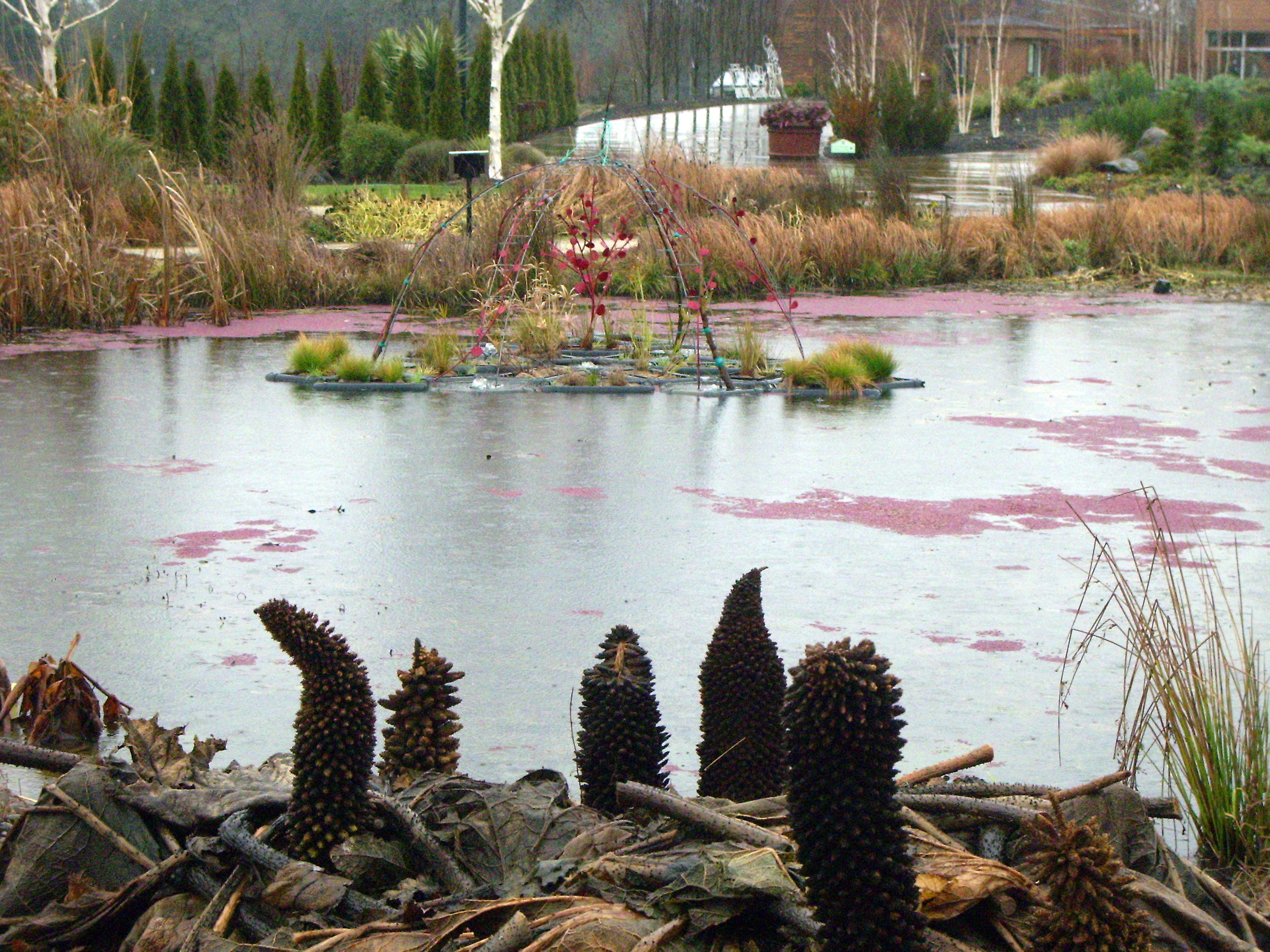 Poi ponds, water maze and artfully arrange composting materials in Oregon Garden.